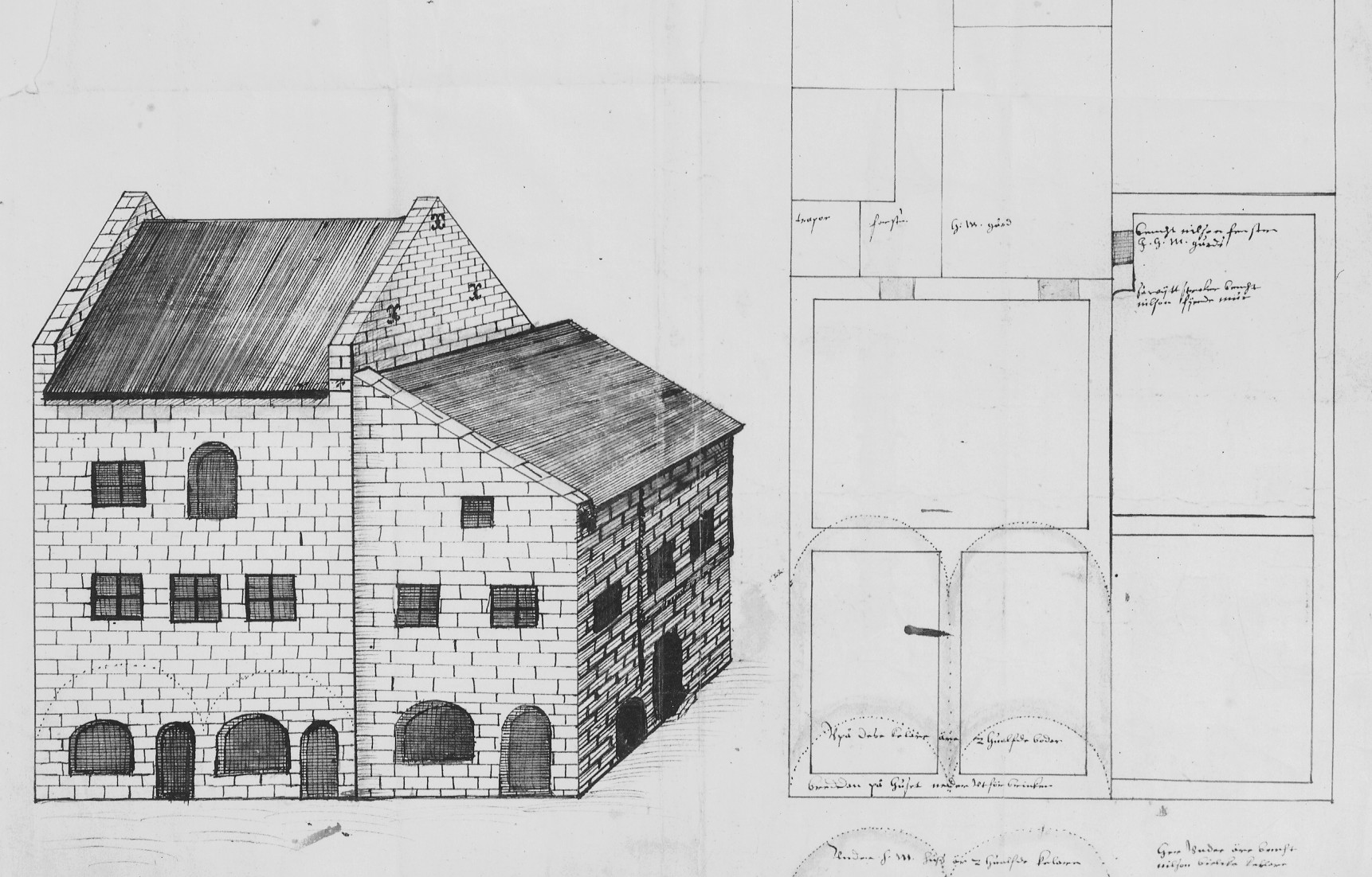 Ritning på hörnhuset Storkyrkobrinken / Prästgatan av ett hus i kvarteret Hippomenes från 1400-talet